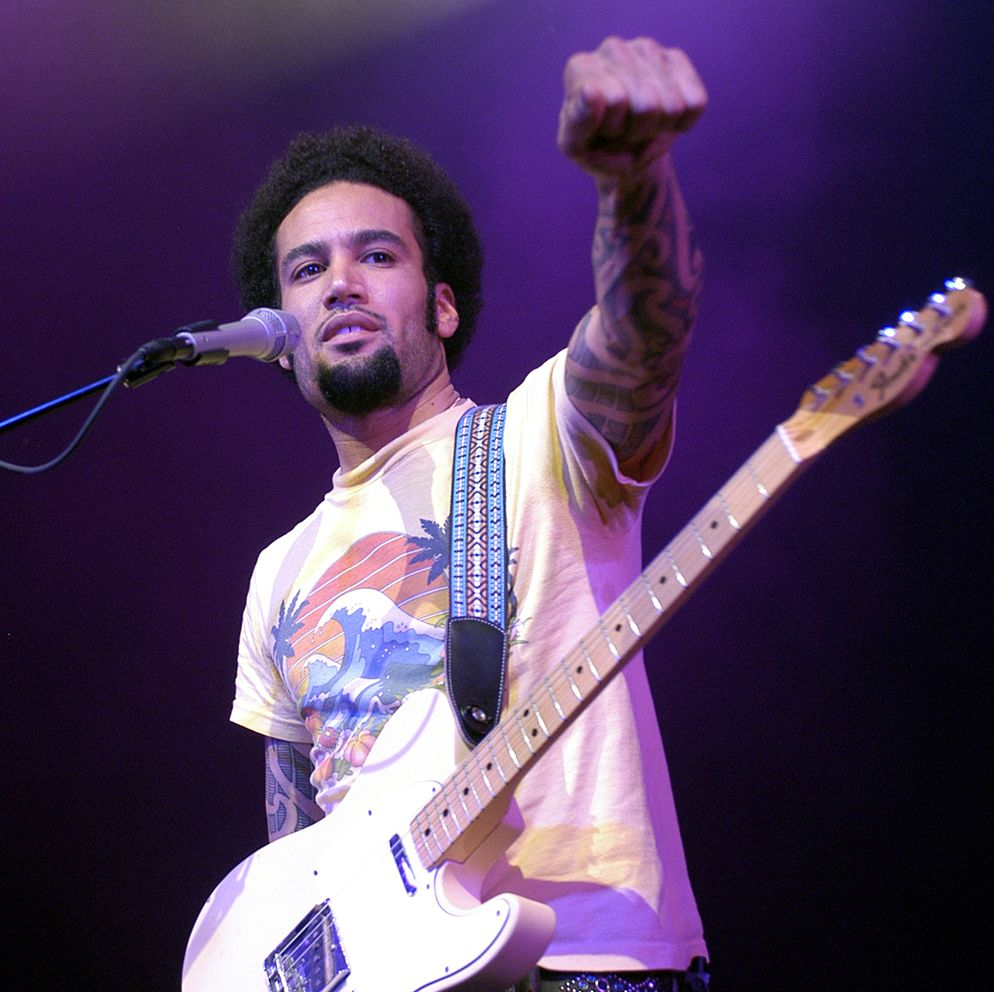 Ben Harper, at Metropolis (Montreal) while the Festival International de Jazz de Montréal in 2003. Photo by Victor Diaz Lamich.